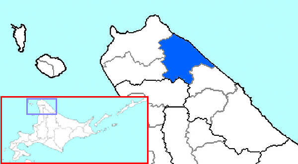 The location of Sarufutsu in Soya Subprefecture, Hokkaido Prefecture, Japan.